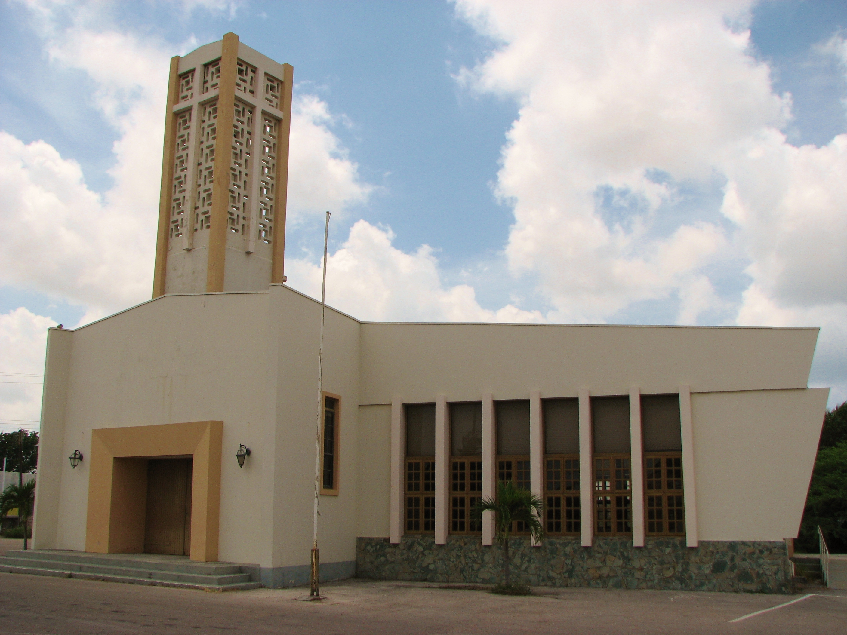 Catholic church Kapel Monte Calvario, Tanki Leendert-Aruba